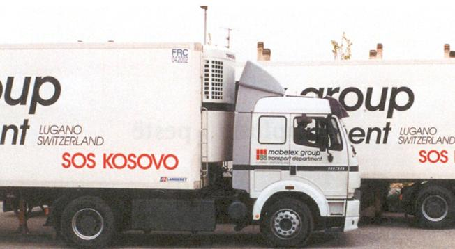 Photo showing the mabetex trucks used to transport goods during the Kosovo conflict